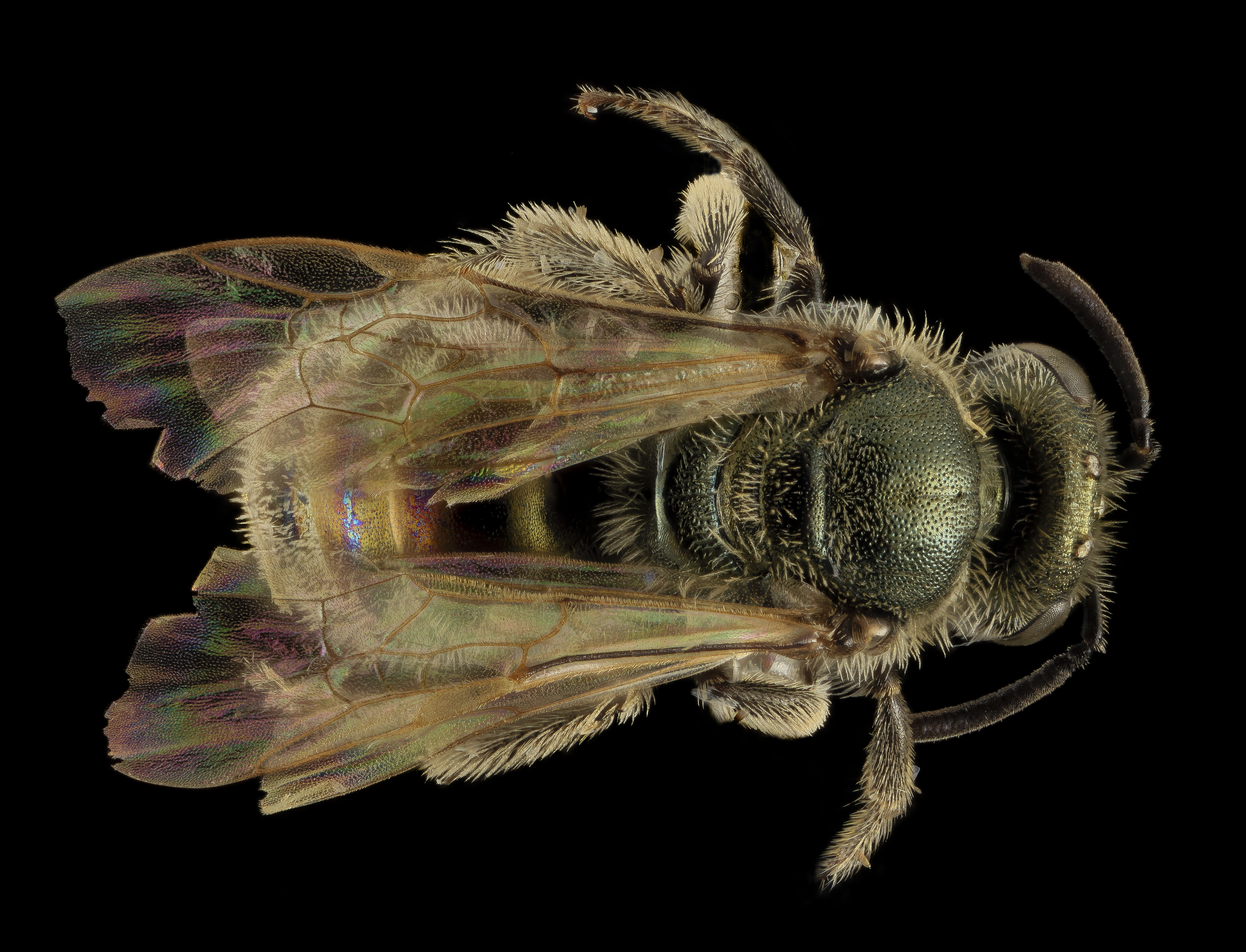 One of the many small difficult to separate by species Lasioglossums. This one was identified by Jason Gibbs and found in Fossil Butte, Wyoming at the National Monument. Photograph by Brooke Alexander. Canon Mark II 5D, Zerene Stacker, Stackshot Sled, 65mm Canon MP-E 1-5X macro lens, Twin Macro Flash in Styrofoam Cooler, F5.0, ISO 100, Shutter Speed 200, link to a .pdf of our set up is located in our profile